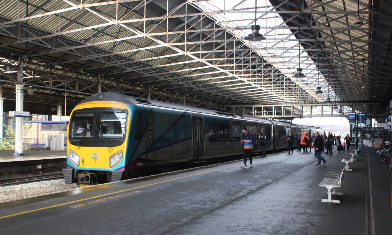 TransPennine Express diesel unit 185126 calls at Huddersfield while on the way from Middlesborough to Manchester Airport.